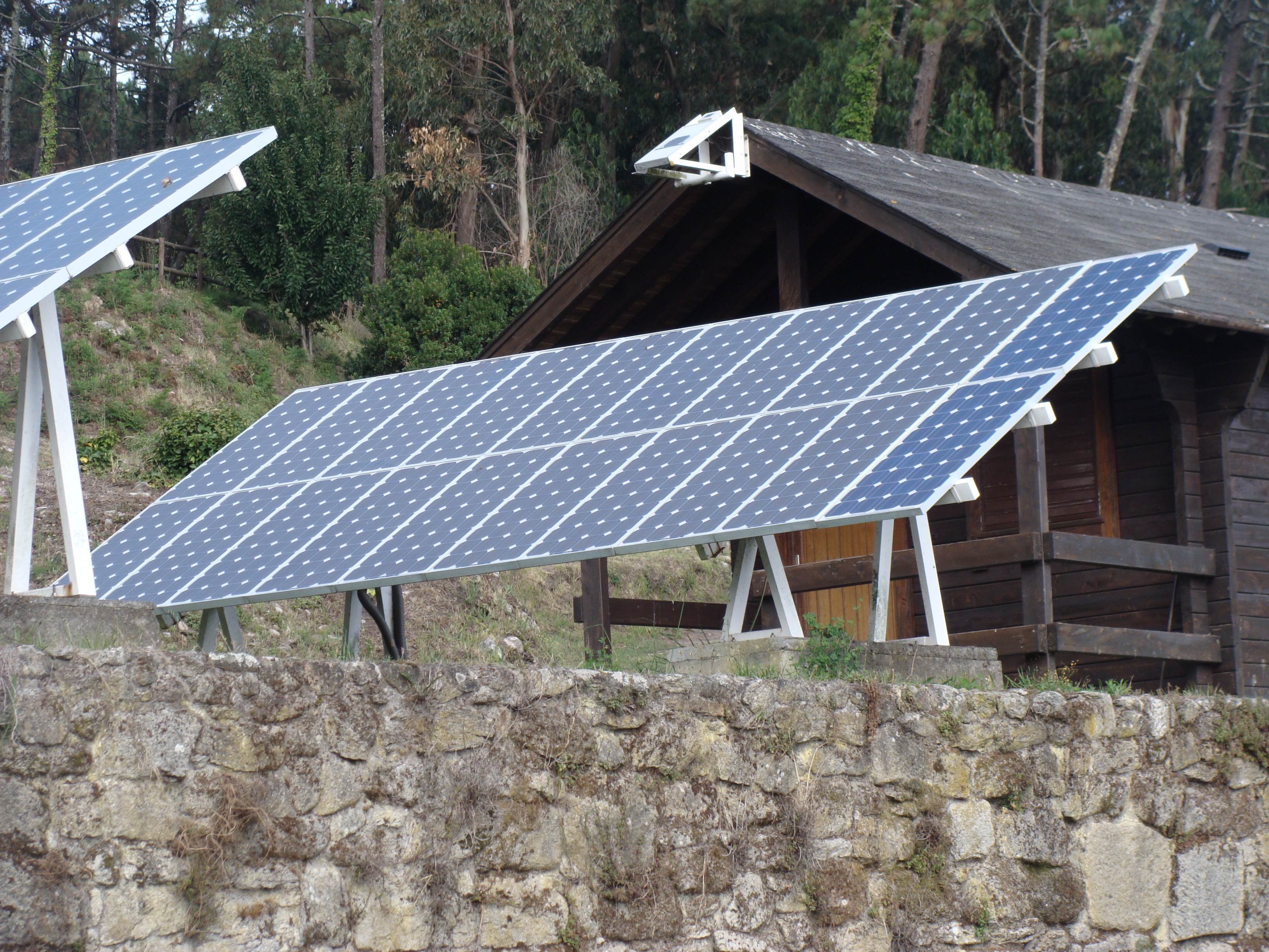 Solar cells in Cíes Islands, Pontevedra, Galicia, Spain.